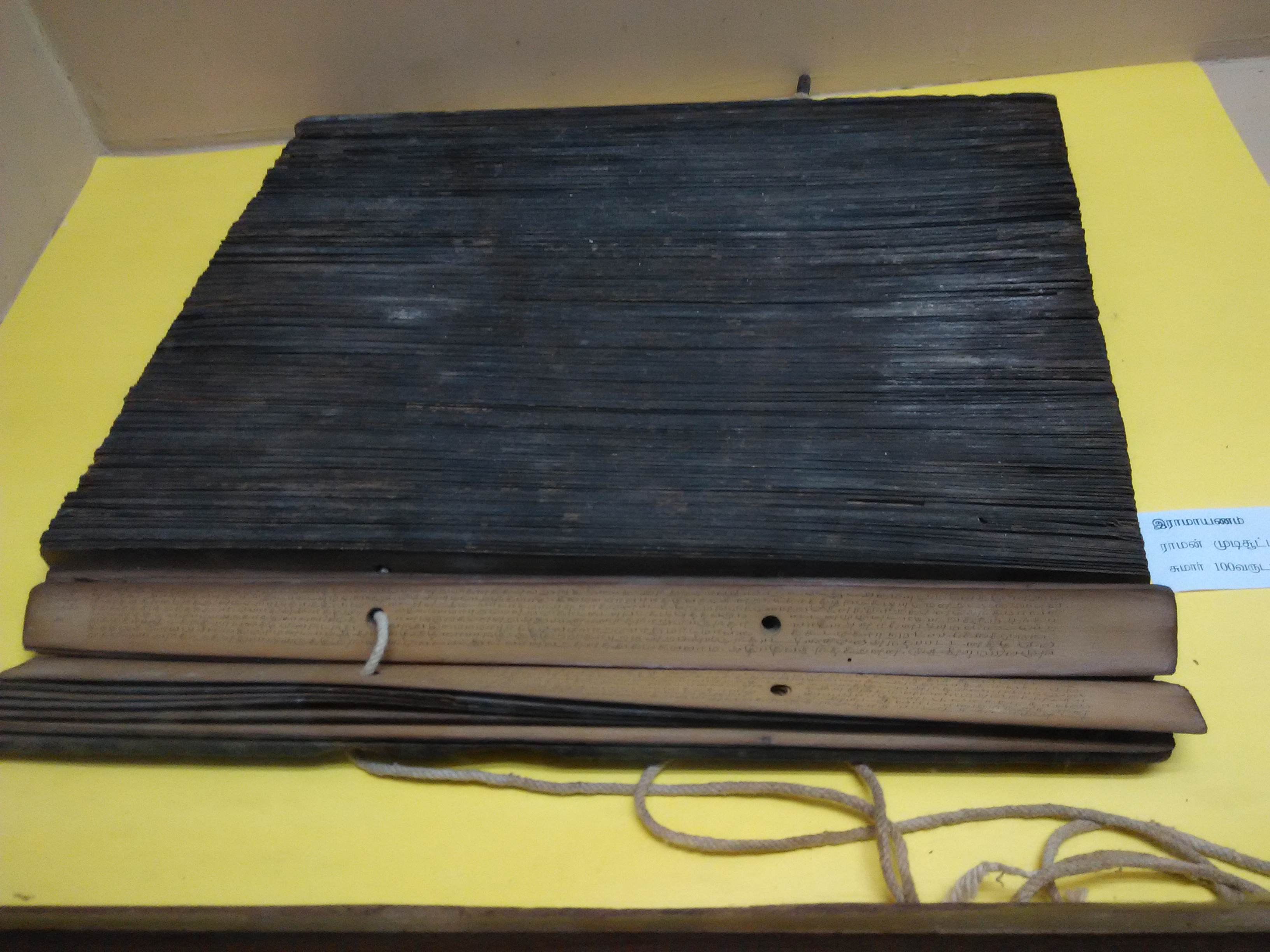 Ancient hindu manuscript